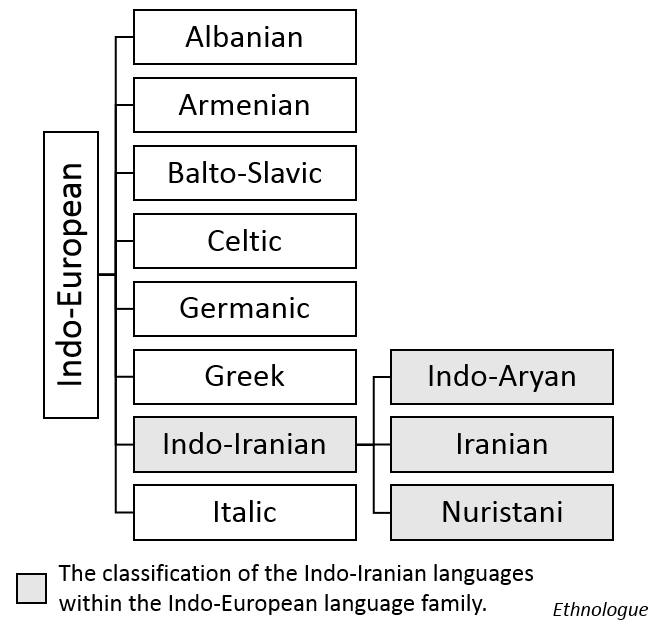 A general chart of the classification of the Indo-Iranian languages within the Indo-European language family, based on Ethnologue (retrieved on August 27, 2018).